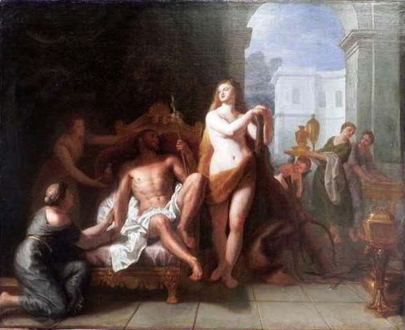 oil on canvas. Public sale in Tours (France), november 19, 2012, n° 52